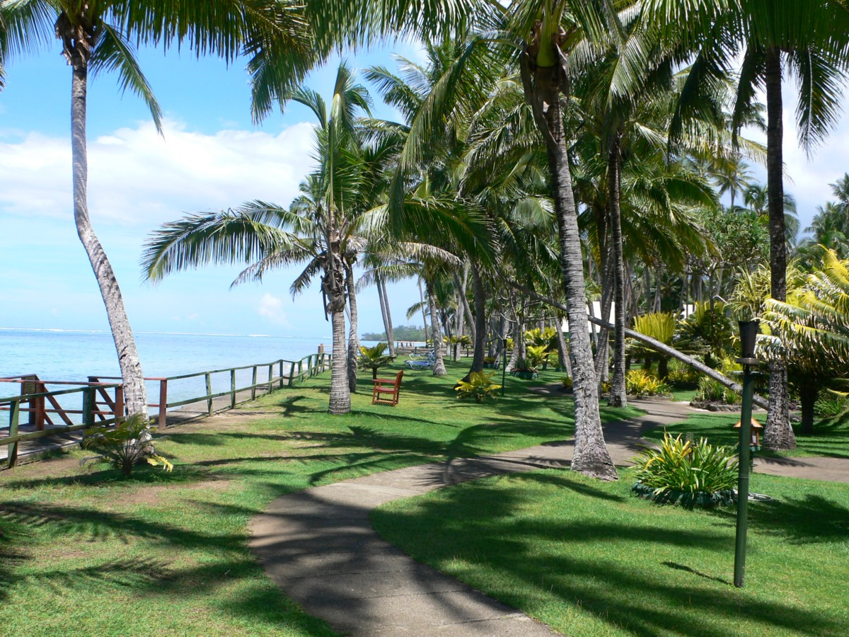 Hideaway resort, Fiji